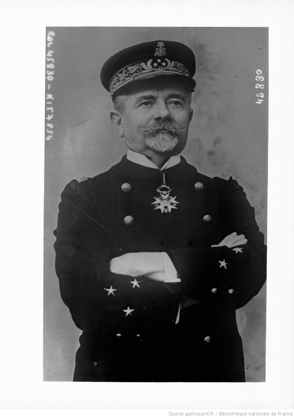 French vice-admiral Louis Dartige du Fournet (1856-1940)